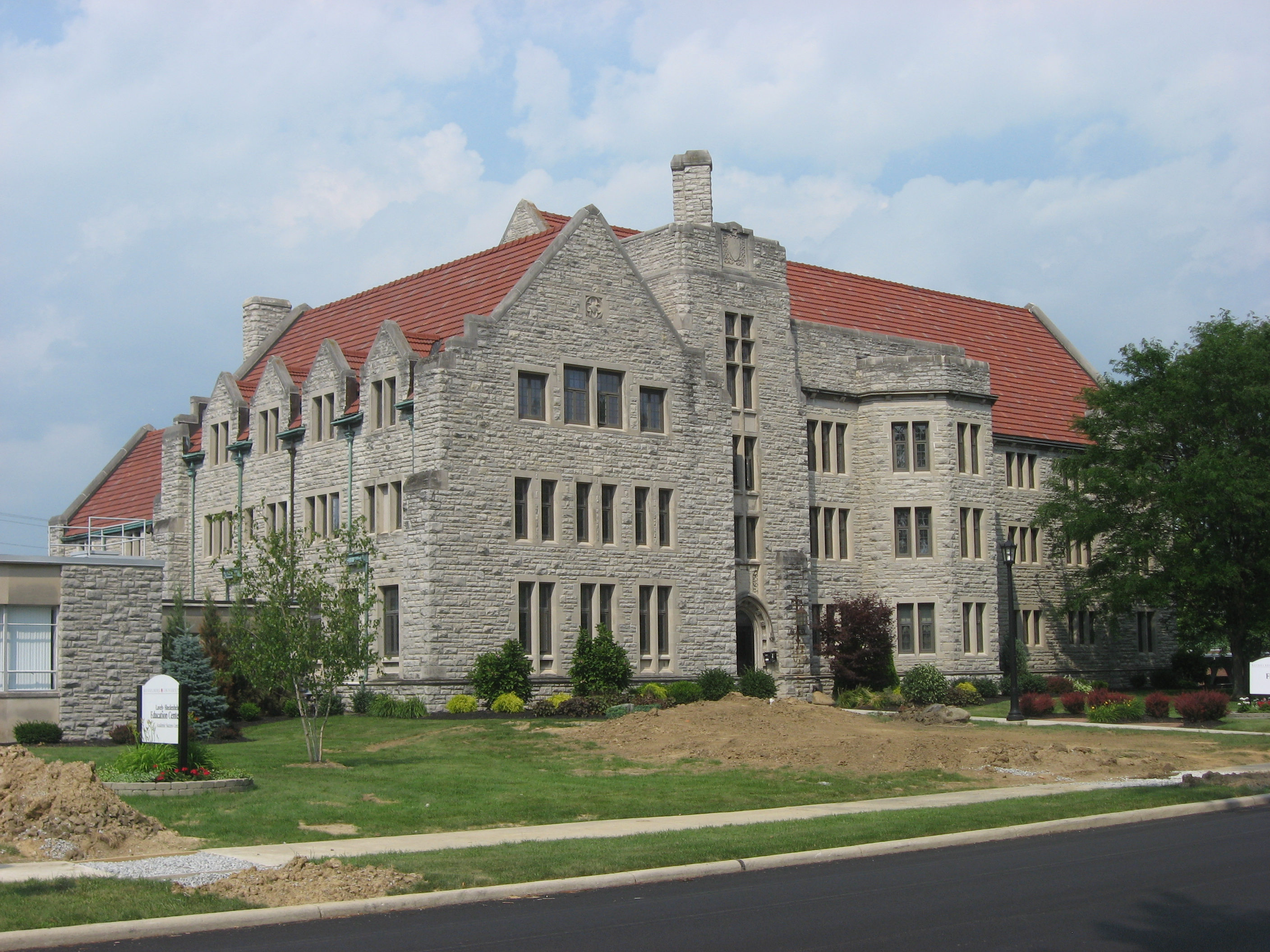 Front of France Hall, located at 119 Greenfield Street on the campus of Heidelberg University in Tiffin, Ohio, United States. Built in 1925, it is listed on the National Register of Historic Places.